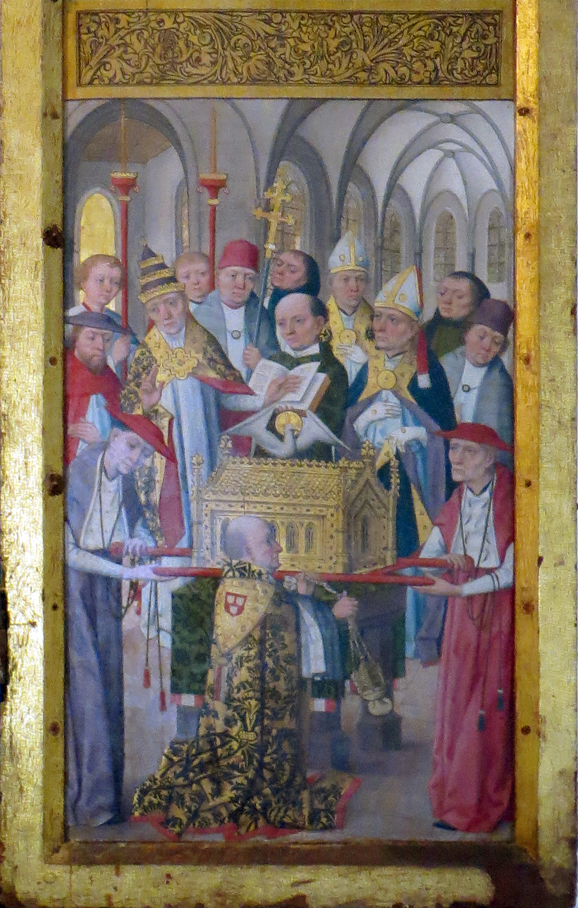 Lukasaltar Luebeck right wing, picture in the lower right corner